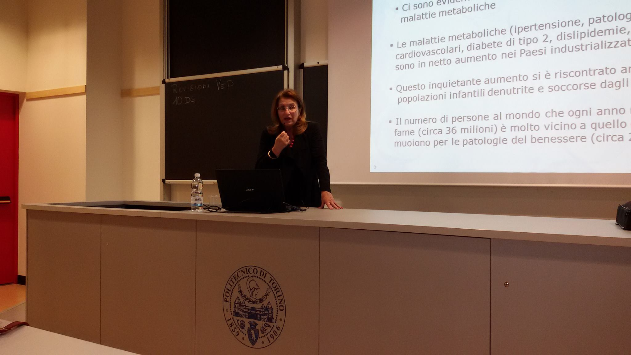 Gigliola Braga during a lectio magisralis at Politecnico di Torino.